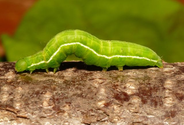 Plusia festucae larva. Location: The Netherlands - Rhenen - Blauwe Kamer